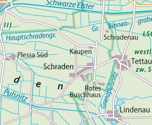 Map of the Schraden, a region in southern Brandenburg, Germany